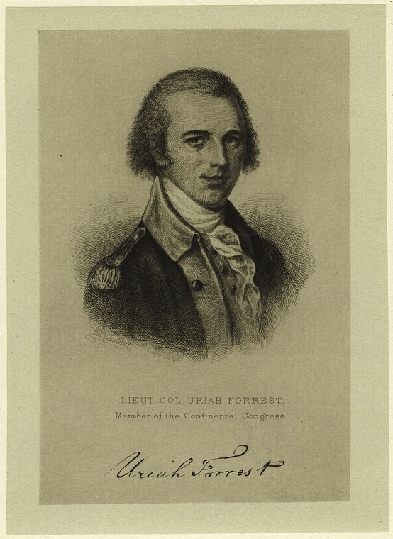 Uriah Forrest, US Representative from Maryland